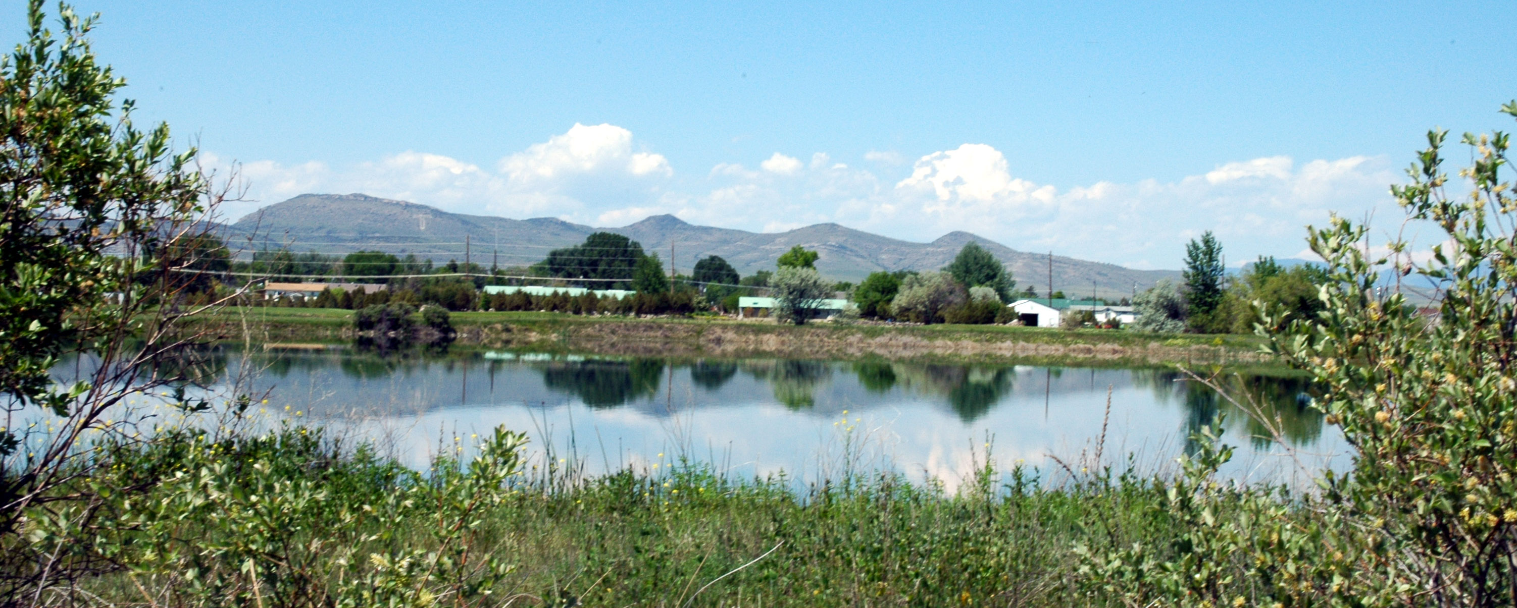 Three Forks, Montana